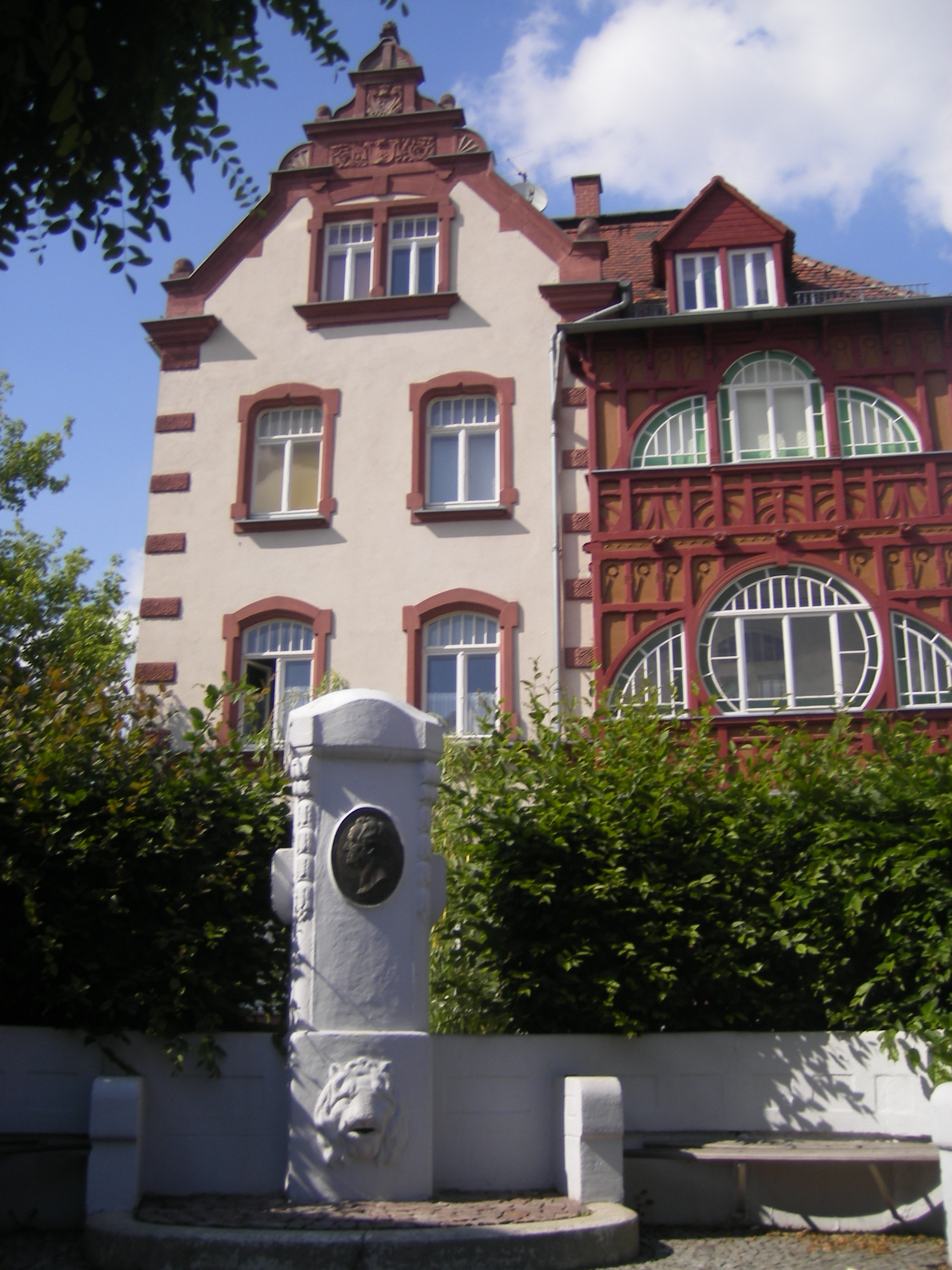 This picture shows the mountain of the german poet Johann Wolfgang von Goethe in the thuringian city Gößnitz.